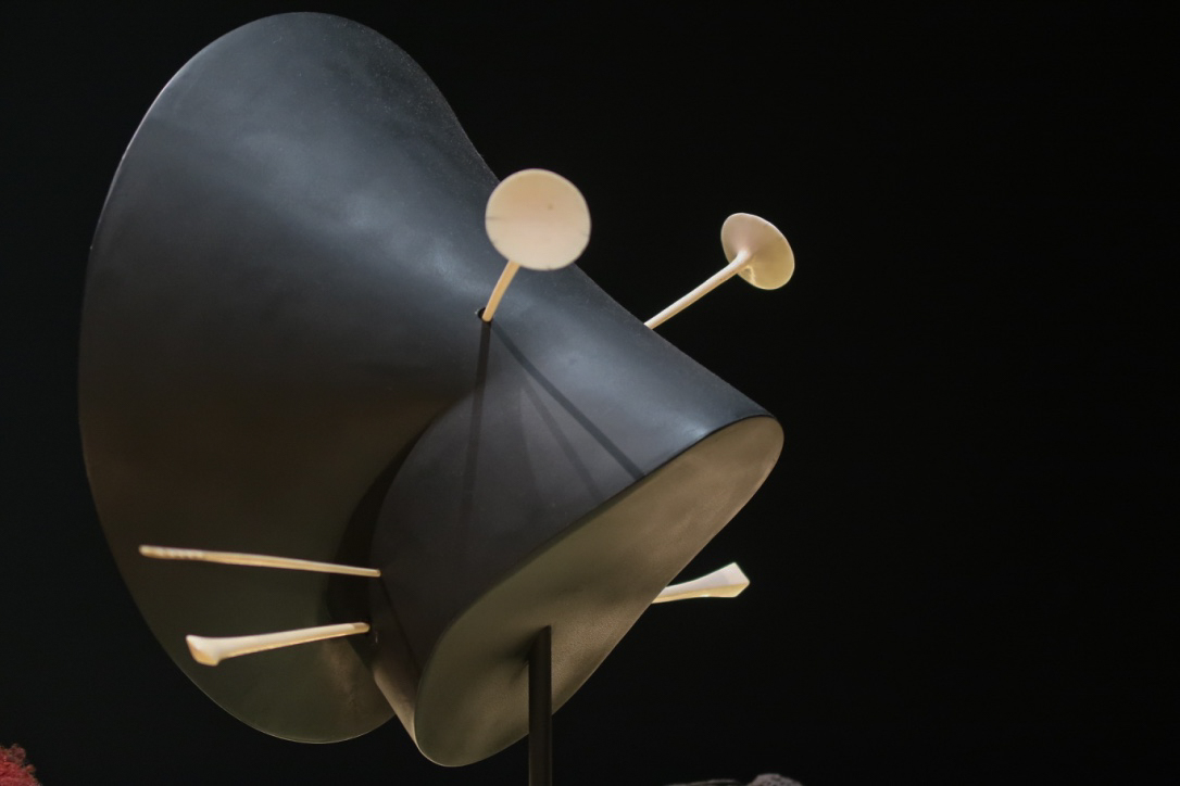 Hat and hair pins. 20th century. Africa, Democratic Republic of Congo, Haut-Uele and Bas-Uele provinces. Mangbetu and Zande population. Ivory. Donation Antoine de Galbert. Museum of Confluences, Lyon ..